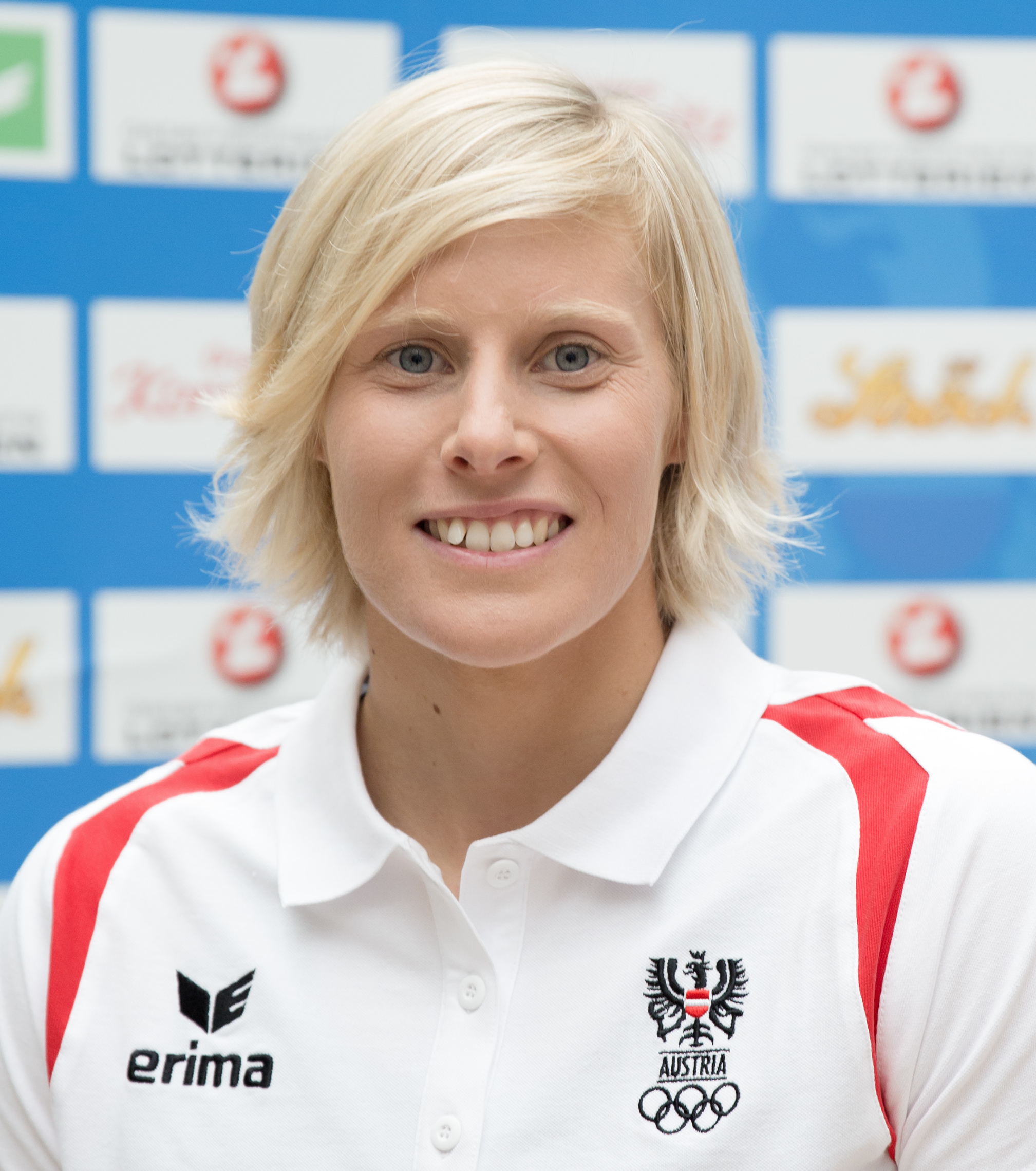 Corinna Kuhnle at the hand-out of the Austrian teams official attire for the 2016 Summer Olympics (Marriott, Vienna).